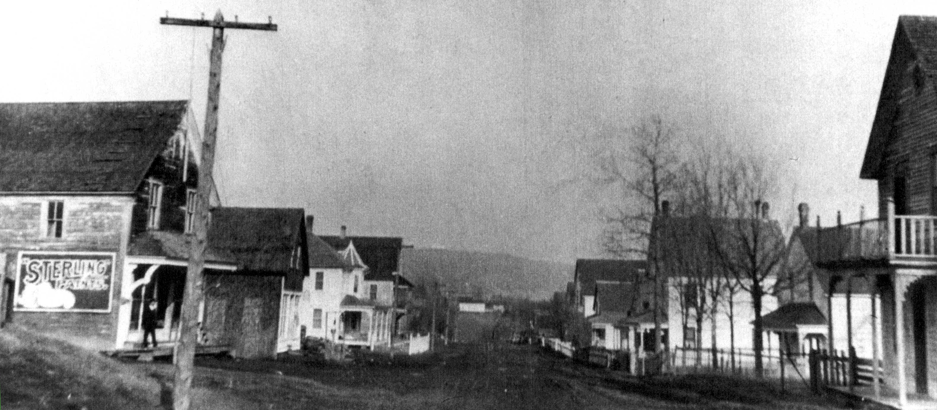 Local Dr. O. E. Morehouse took this photograph of Burtt's Corner, York County, New Brunswick, Canada, in 1905. It was originally produced from a glass negative. This version has been cropped.